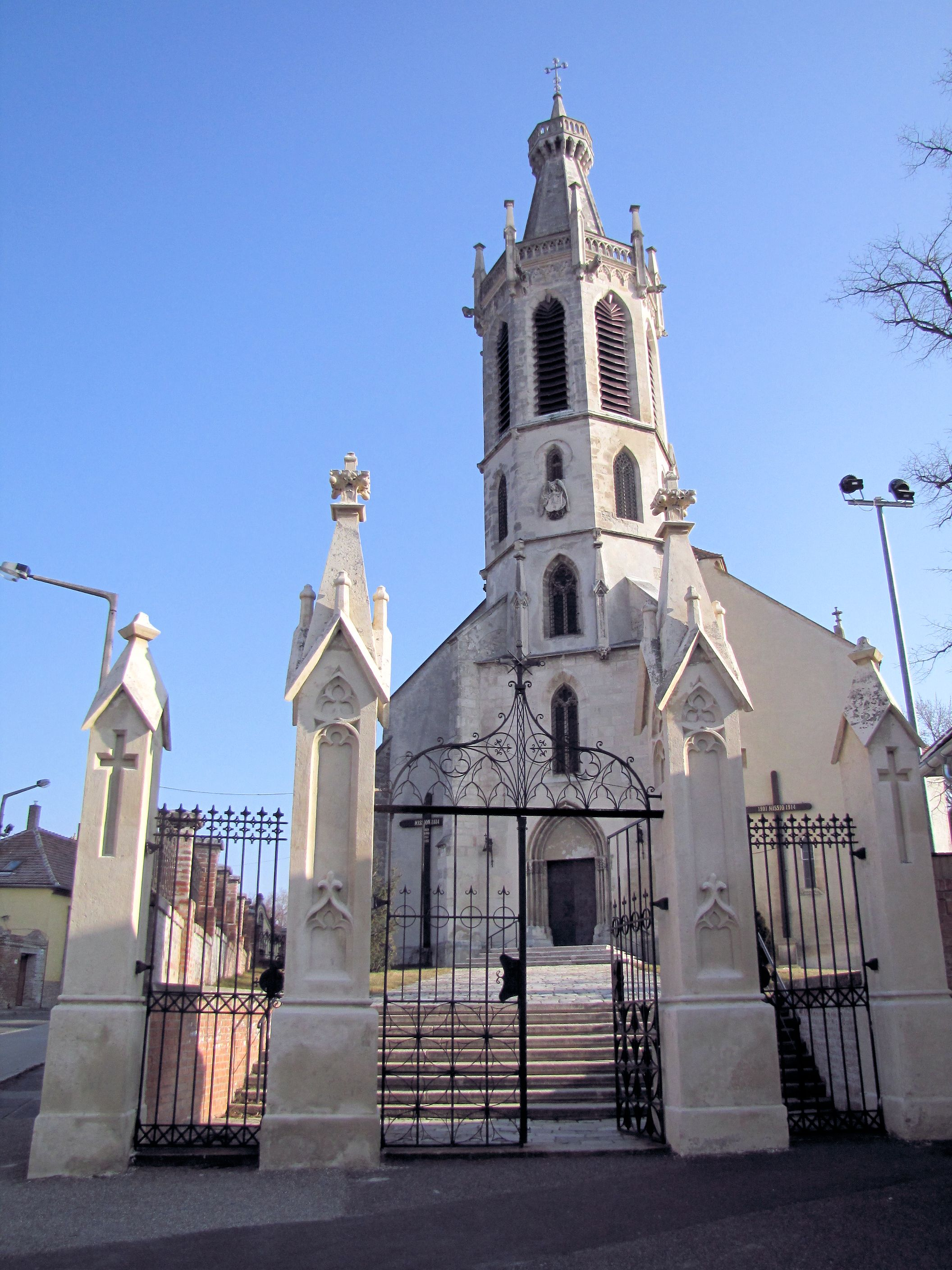 Sopron, Church of St Michael.